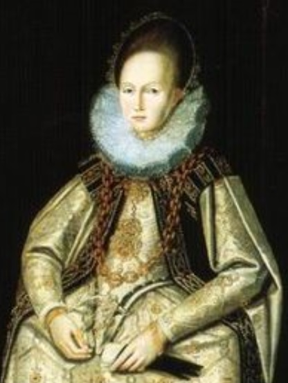 Anna of Saxony (1567–1613)